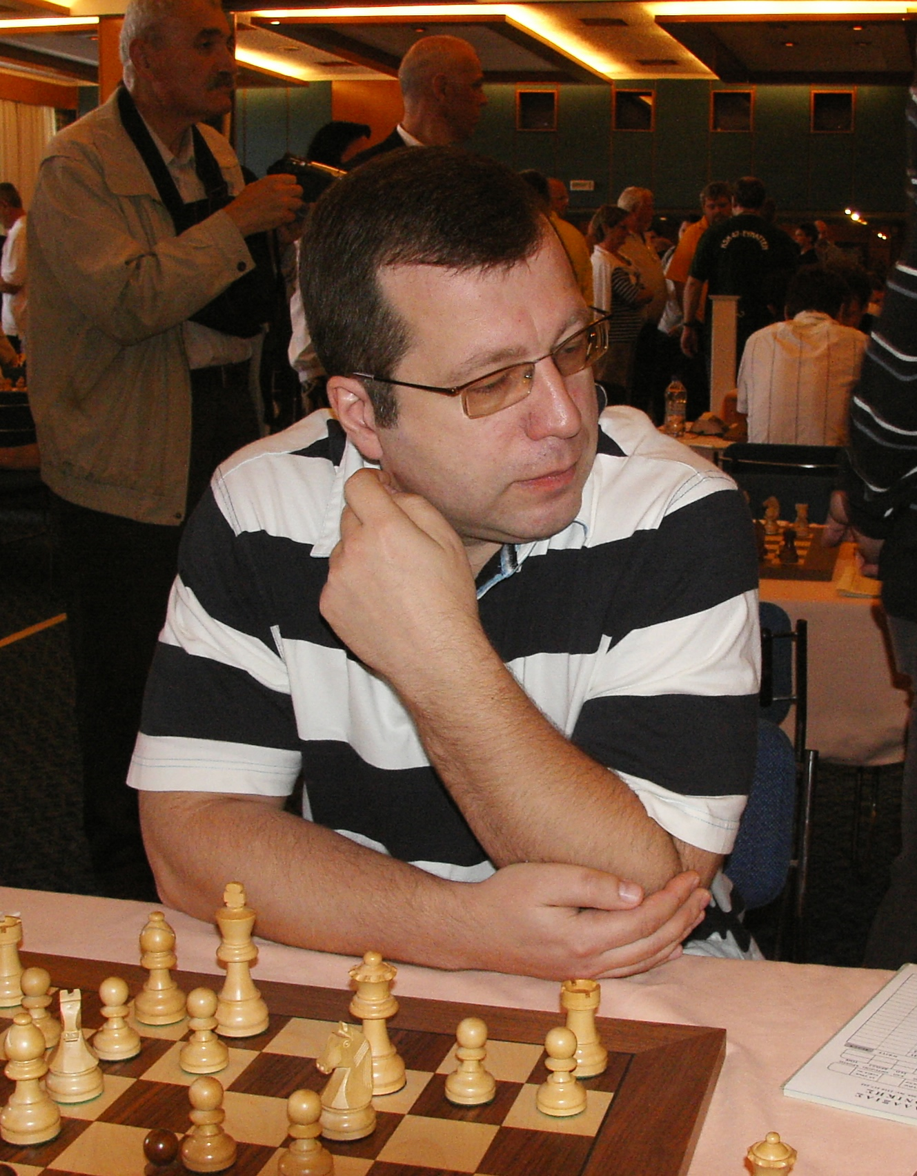 Alexey Dreev, 24th European Club Cup 2008 Halkidiki, Greece